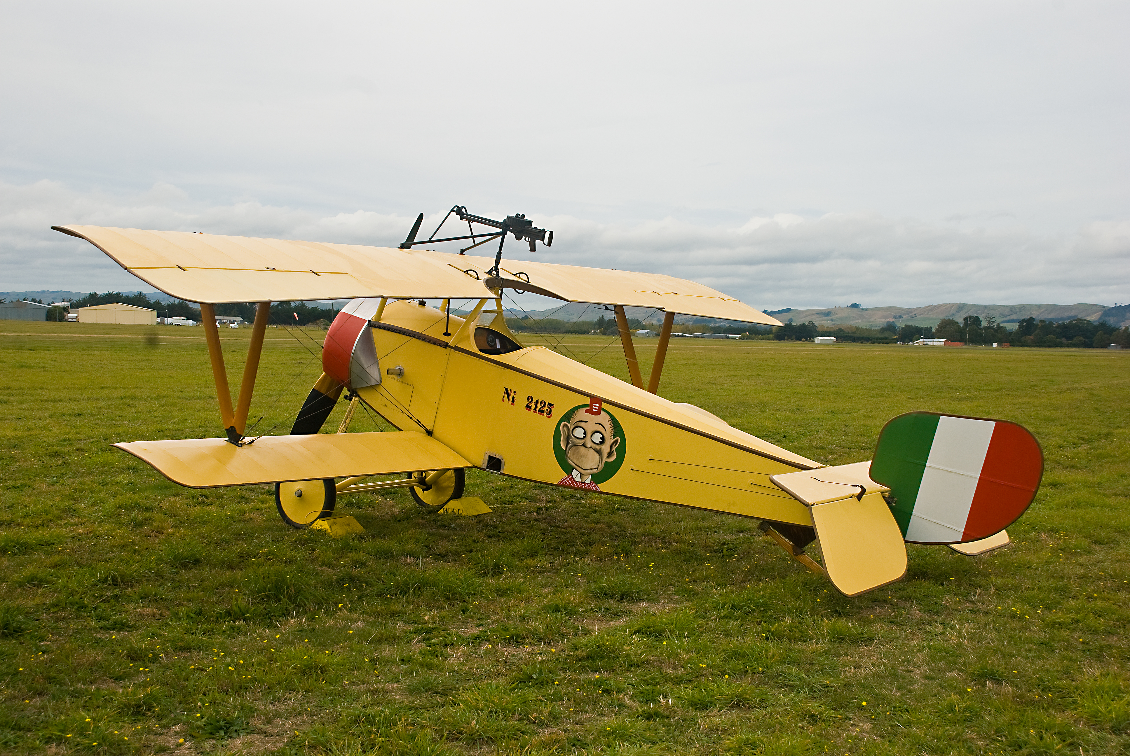 Nieuport 11, Masterton, New Zealand, 25 April 2009ANZAC Day display